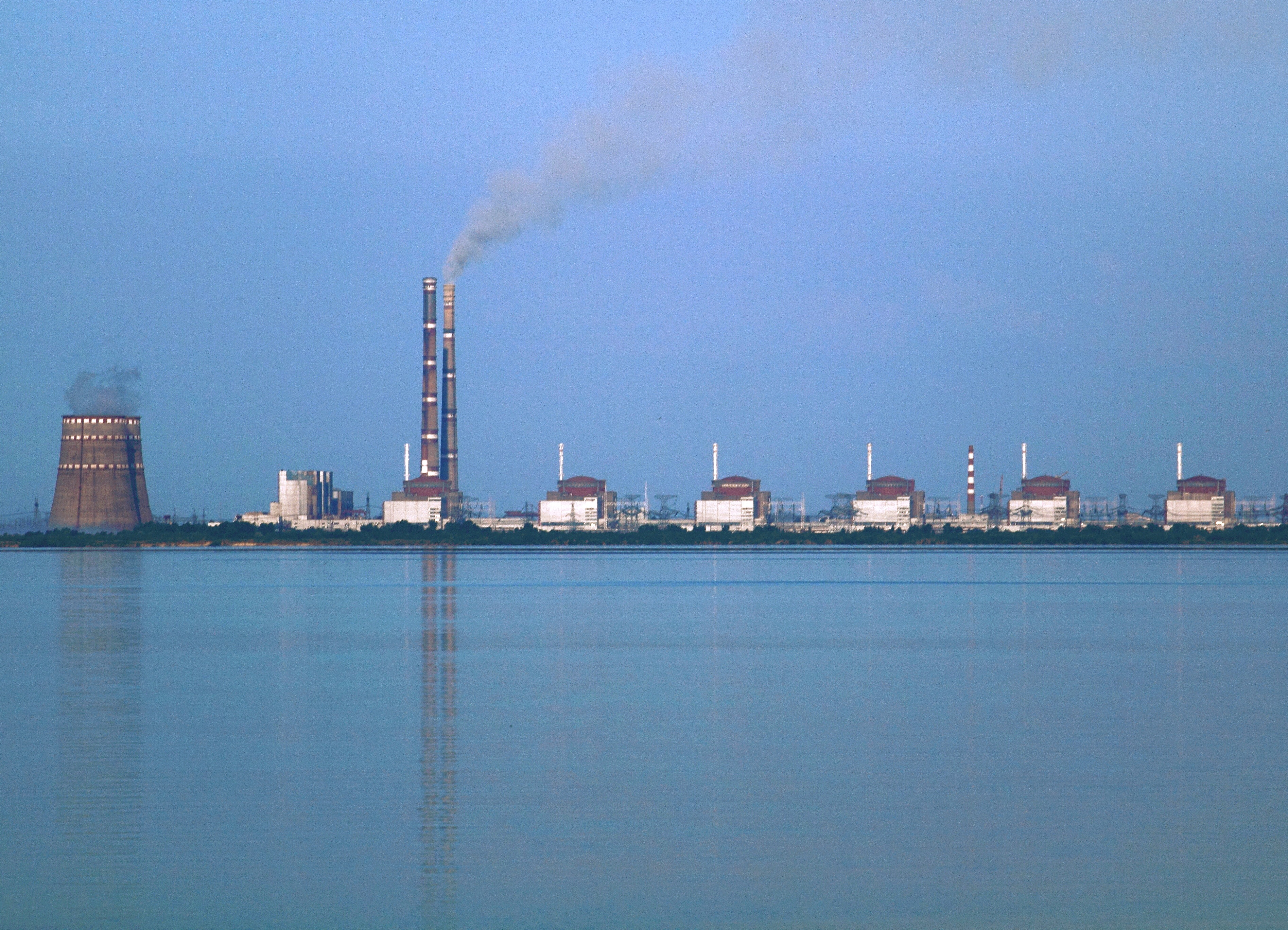 Biggest nuclear power station in Europe; about 150 km from Zaporozhye / Ukraine. Photo from the "Nikopol" bank of the river Dnieper